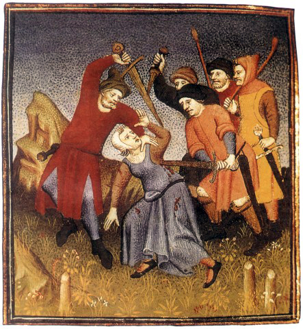 The robbers killed passer. Figure XV century